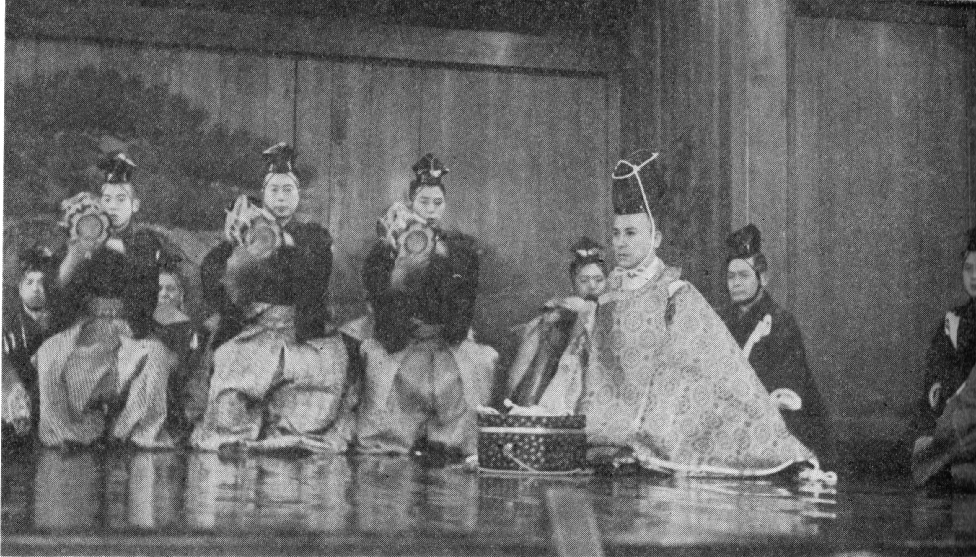 KANZE Sakon(1895 - 1939), Okina